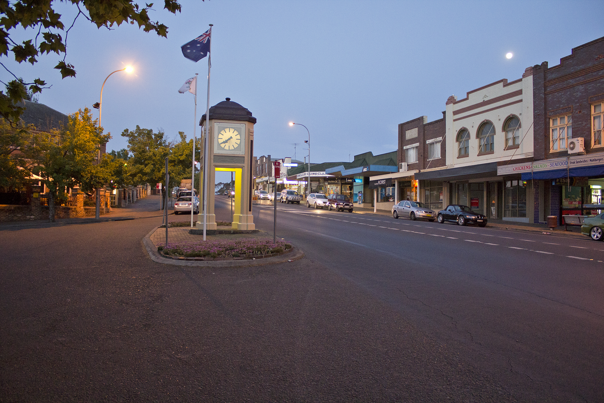 Looking up Argyle Street (part of the Illawarra Highway) in Moss Vale, New South Wales.